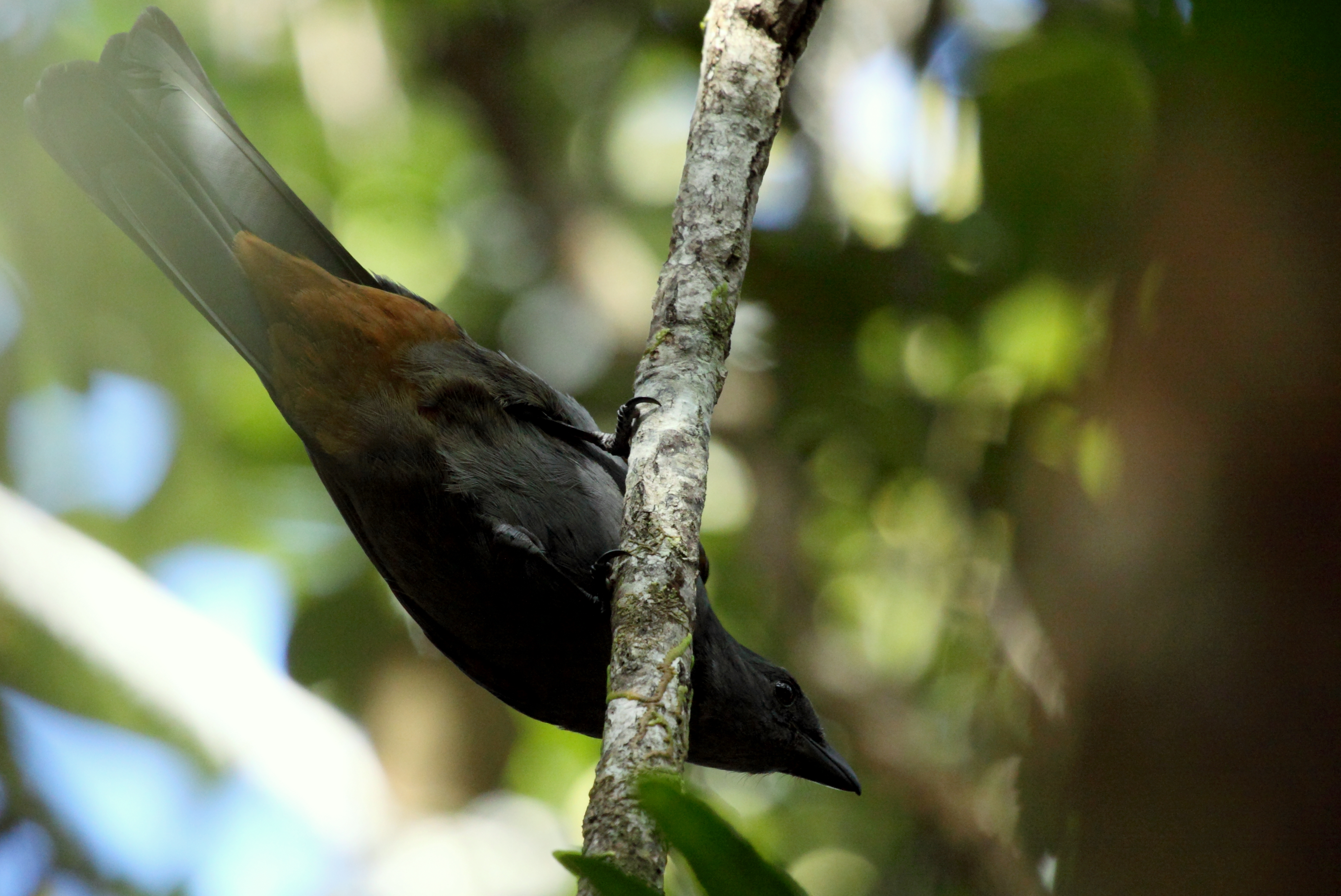 New Caledonia Cuckoo-Shrike Coracina analis at the Parc Provincial de la Rivière Bleue, New Caledonia, 20th September 2011